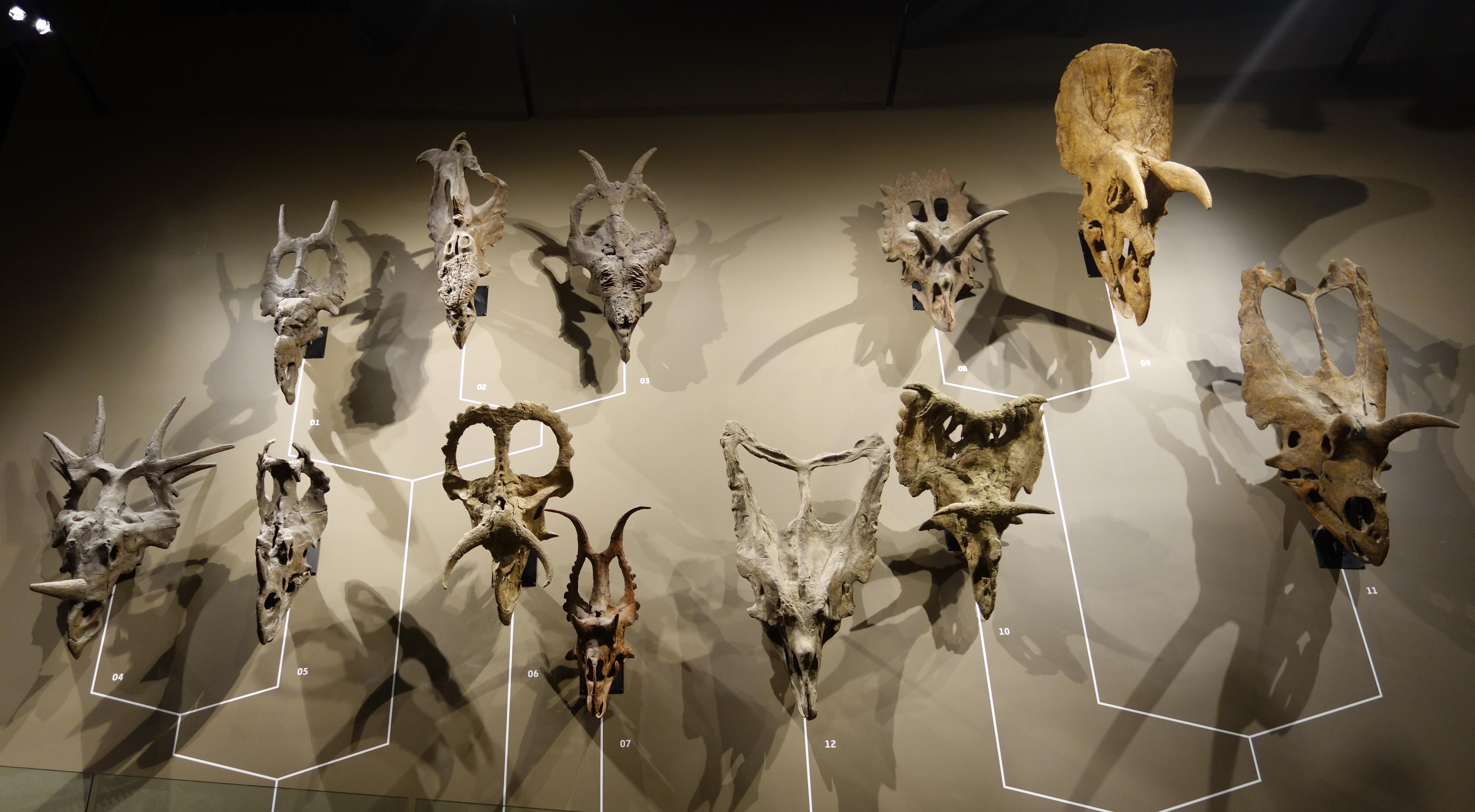 Compilation of skulls of different genera of ceratopsian dinosaurs, on display at the Natural History Museum of Utah. Centrosaurs: 01 Einiosaurus procurvicornis, Cast of MOR 456 & MOR 373 02 Pachyrhinosaurus lakustai, Cast of TMP 1986.55.258 03 Achelousaurus horneri, Cast of MOR 845 04 Styracosaurus albertensis, Cast of CMN 344 05 Centrosaurus apertus, Cast of AMNH 5239 06 Nasutoceratops titusi, Cast of UMNH VP 16800 07 Diabloceratops eatoni, Cast of UMNH VP 16699 Chasmosaurs: 08 Anchiceratops ornatus, Cast of NMC 8535 09 Triceratops horridus, Cast of TCM 2001.93.1 10 Kosmoceratops richardsoni, Cast of UMNH VP 17000 11 Coahuilaceratops magnacuerna, Cast of CPC 276 12 Chasmosaurus belli, Cast of ROM 843